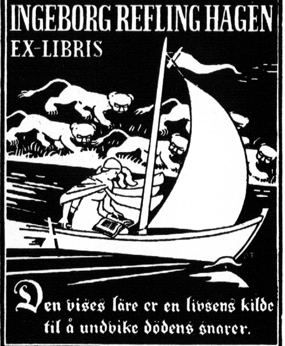 Ex libris of norwegian author Ingeborg Refling Hagen